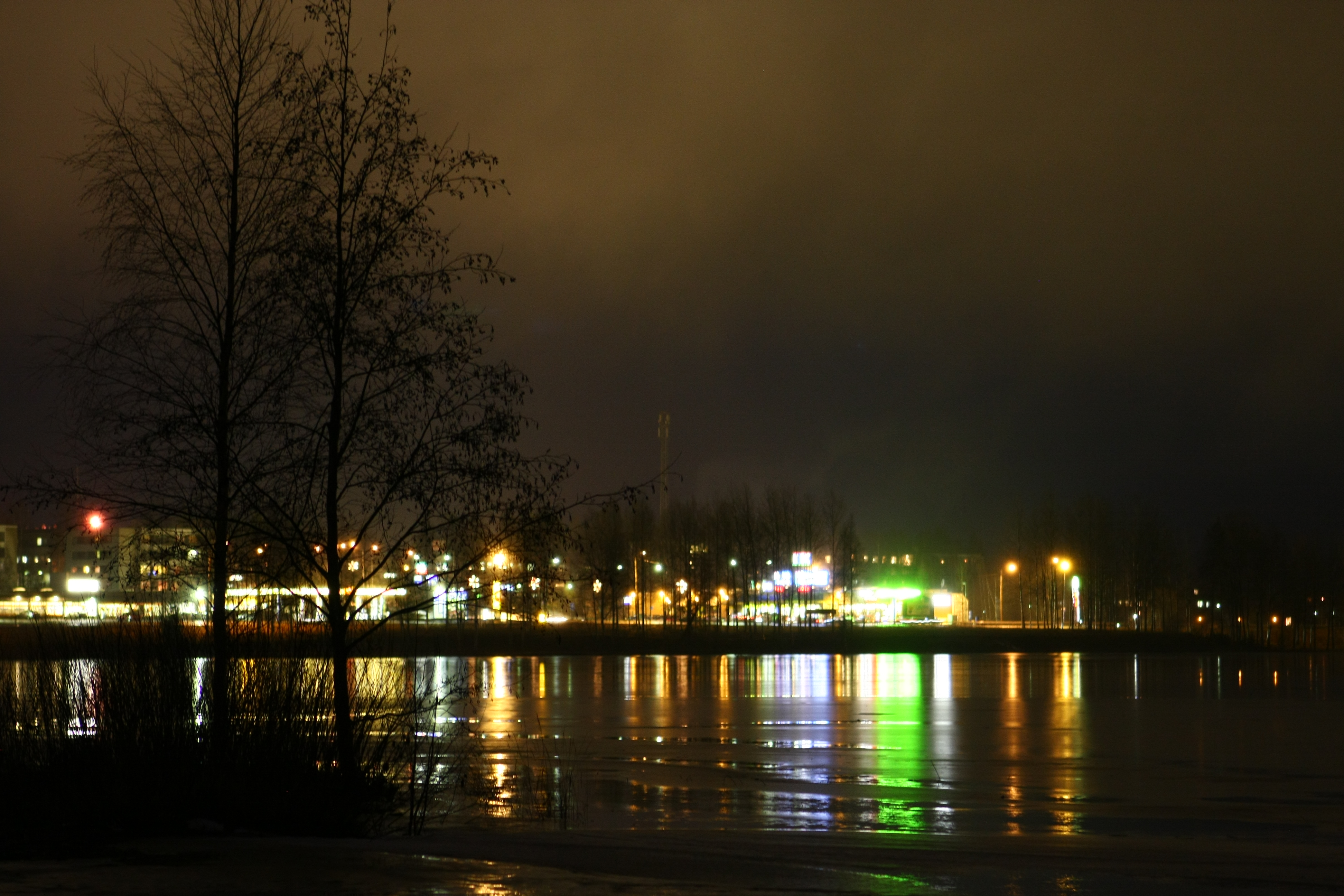 Parkano, Finland, at night, looking from the lake